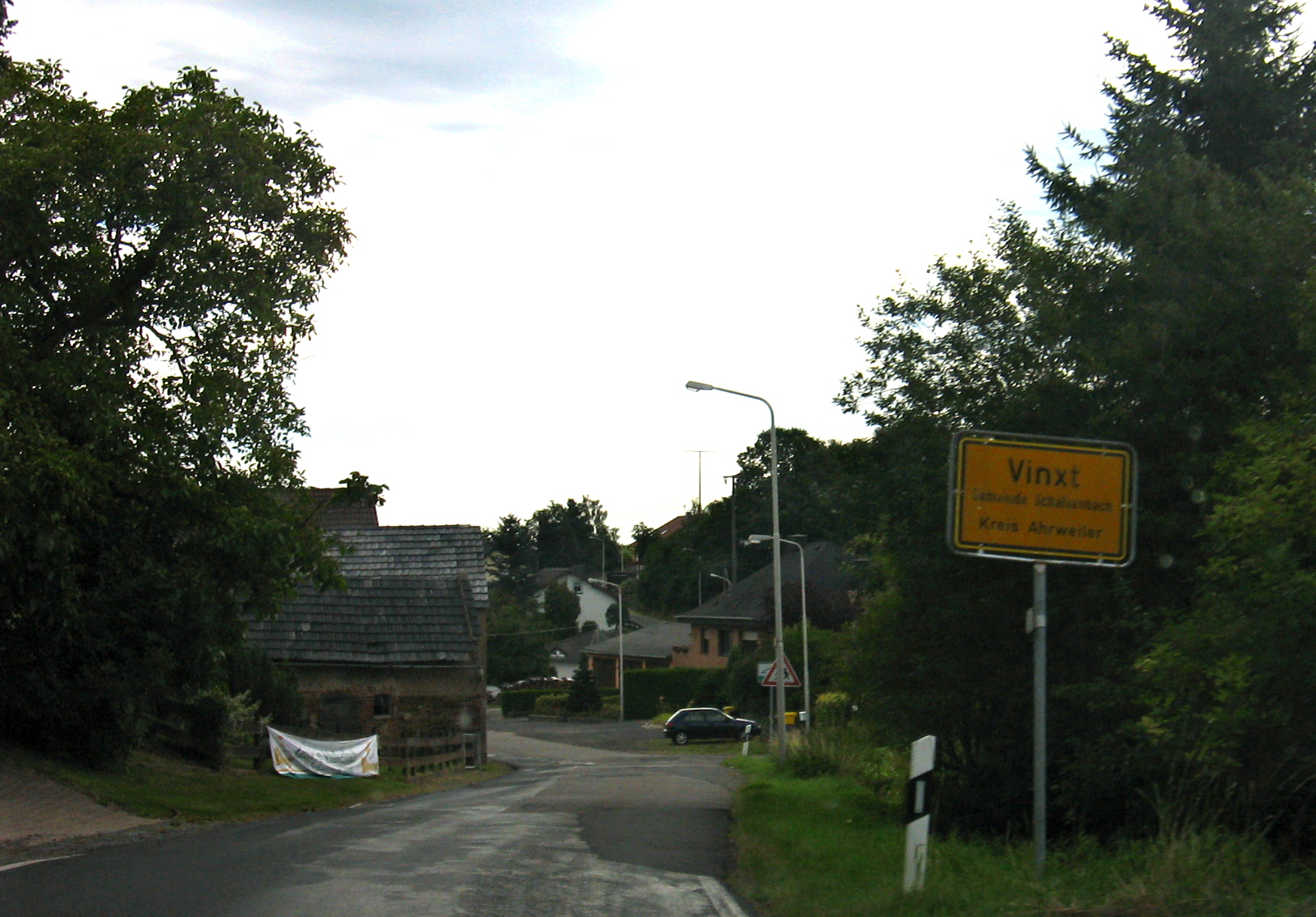 Vinxt, Schalkenbach